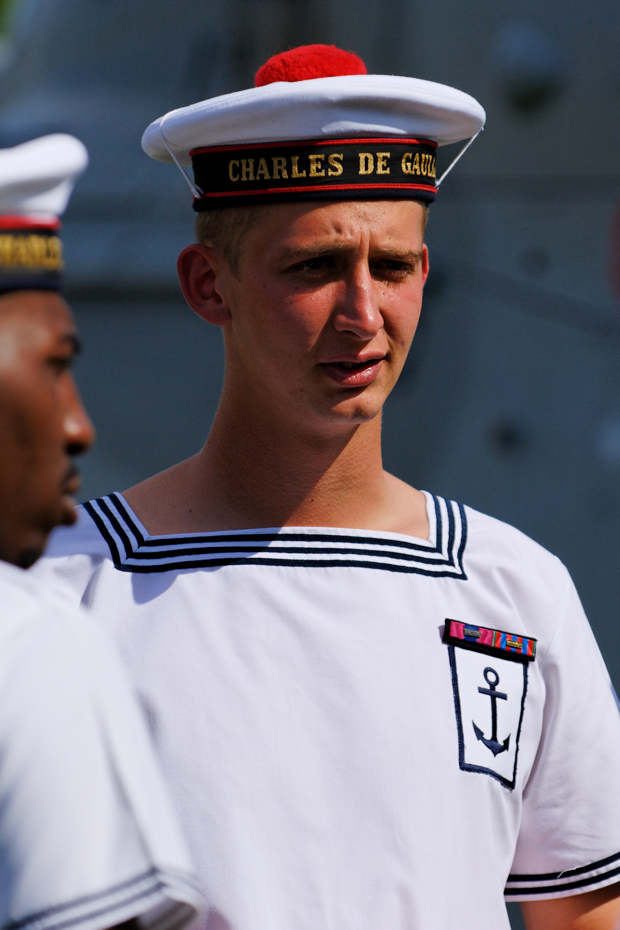 Seaman of the Charles de Gaulle aircraft carrier during the celebrations of Bastille Day 2008 in Paris.